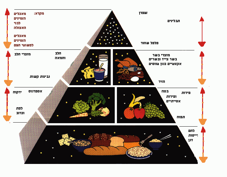 A chart showing the avalability of food in the high middle ages according to social classes and food type